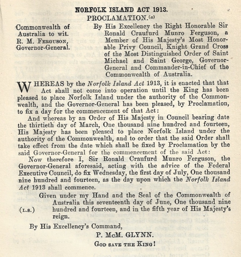 cropped from own photo of page in "Territory of Norfolk Island. Consolidated Laws. Being the Norfolk Island Act 1913 ... and Ordinances ... as in Force on 31st December, 1934; Canberra, Commonwealth Government Printer for Prime Minister's Department, n.d.; page 351